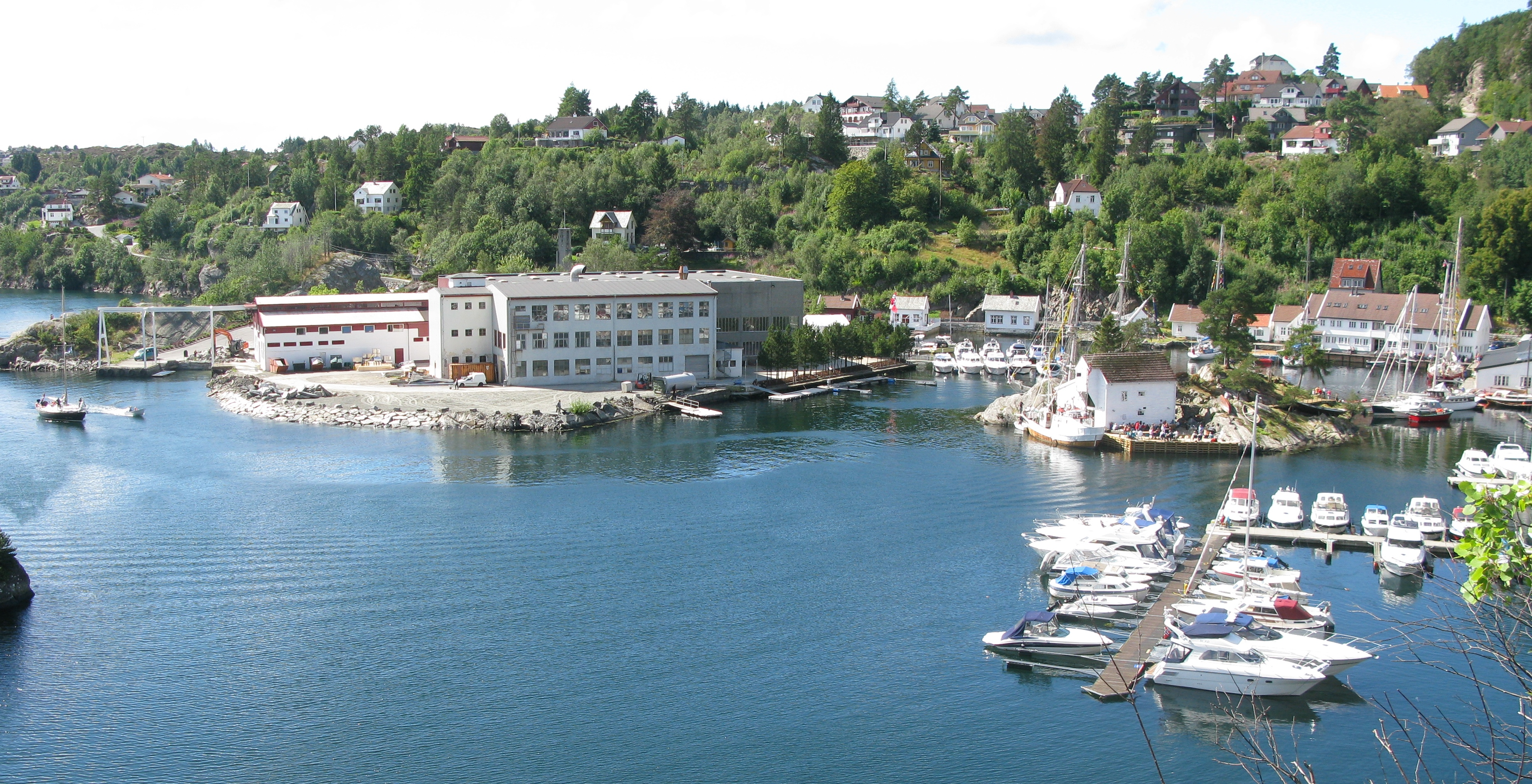 The production fascility of the company Viksund Yachts of Norway